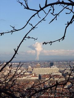 Photograph of Lyon, France